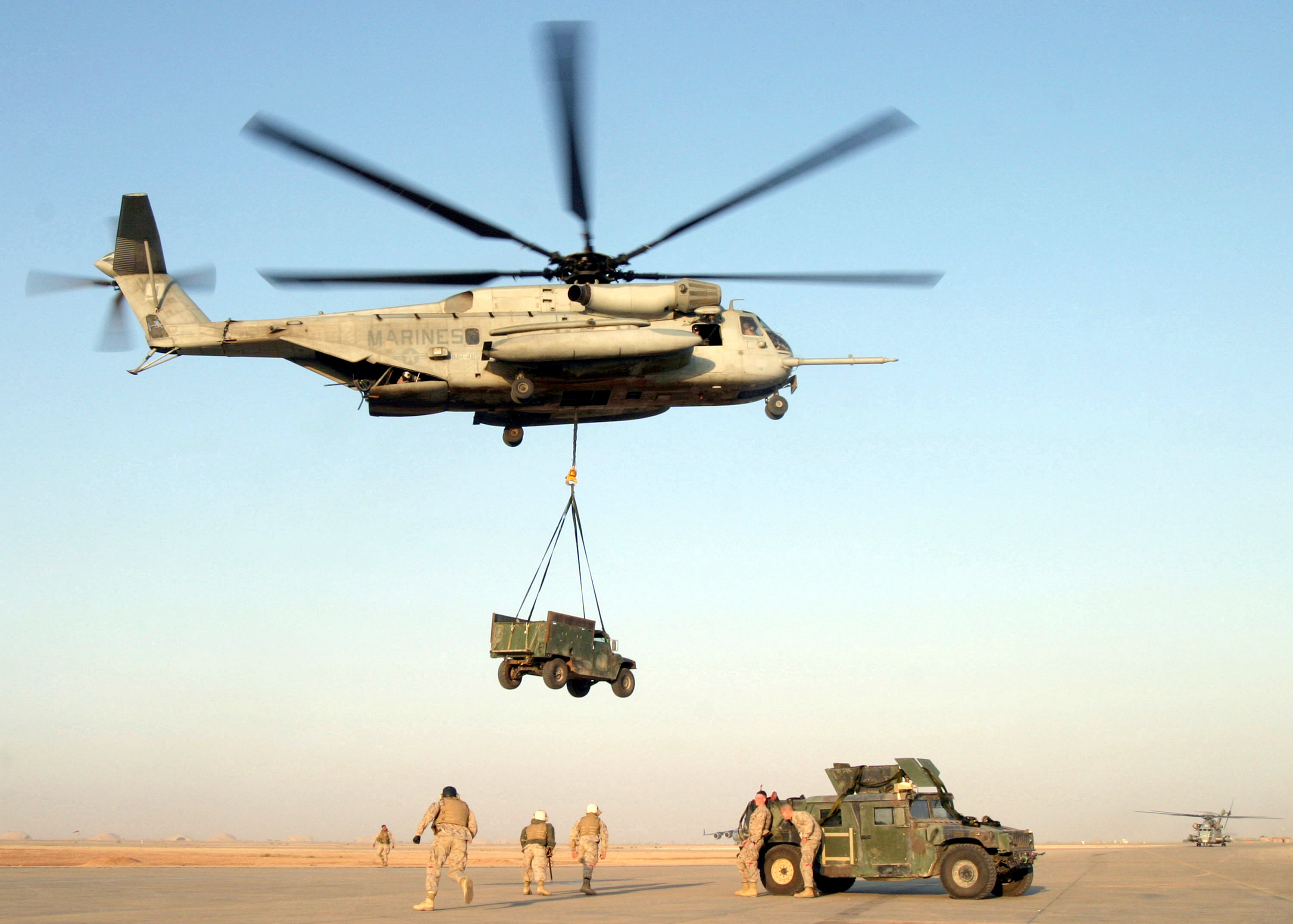 A US Marine Corps (USMC) CH-53E Super Stallion, 2nd Marine Aircraft Wing (MAW), lifts a flank armored High-Mobility Multipurpose Wheeled Vehicle (HMMWV) from the flightline of Al Asad Air Base (AB), Iraq, for delivery to infantry units inserted at a forward location for Operation RIVER SWEEP in support of Operation IRAQI FREEDOM.